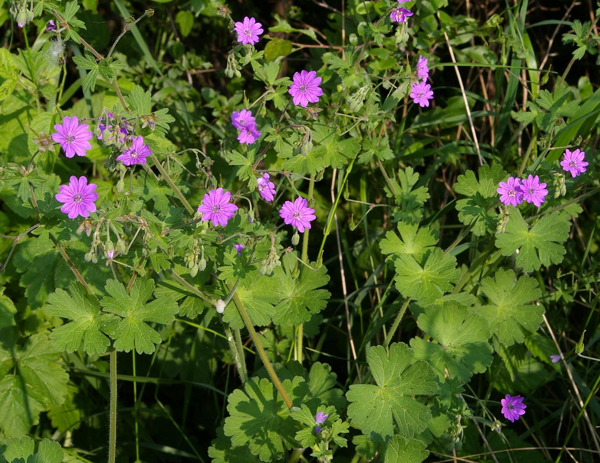 Plants of Geranium pyrenaicum.